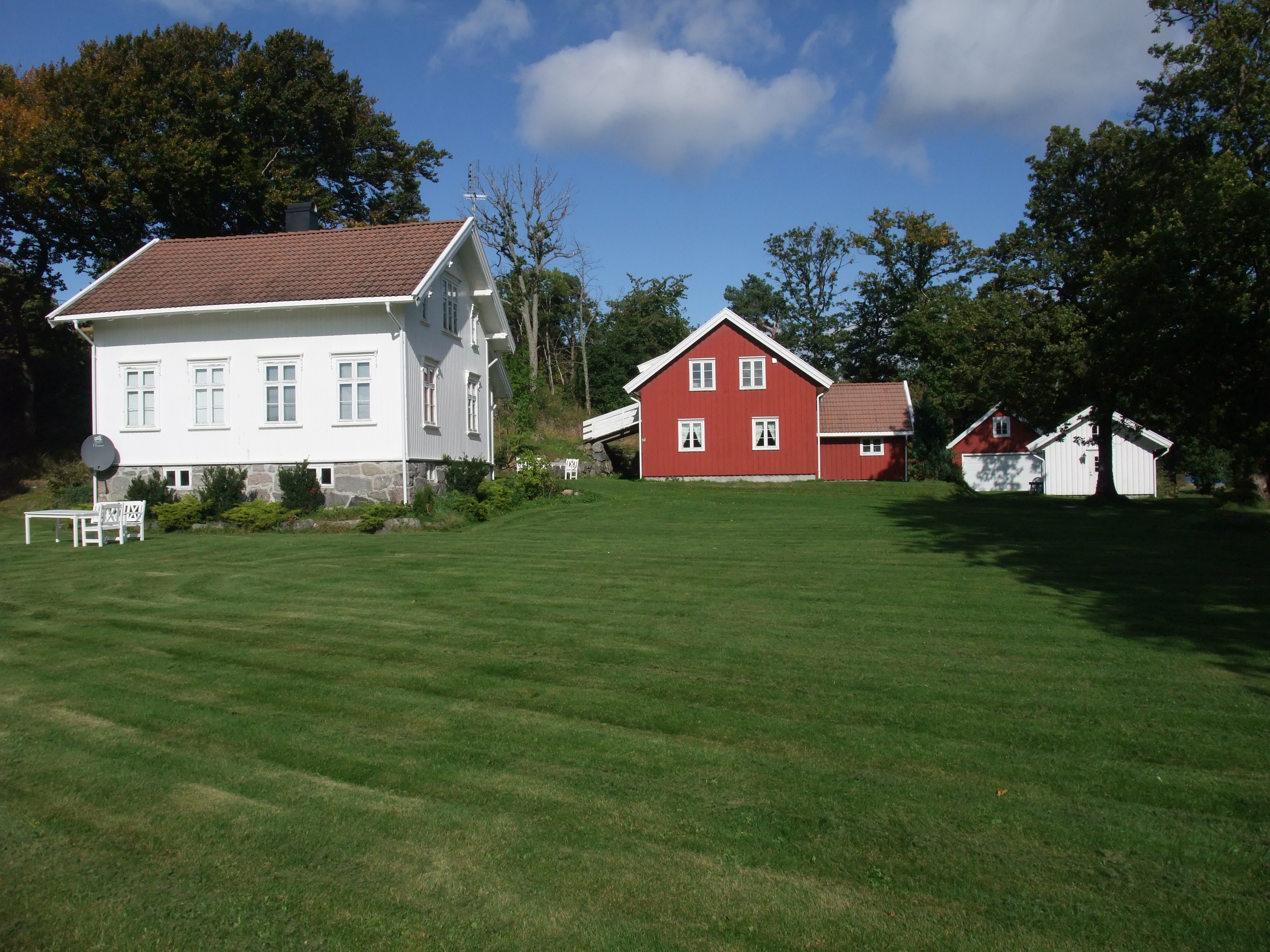 "Havebrugsskolen, Lillenes", Grimstad, Norway sept. 2009